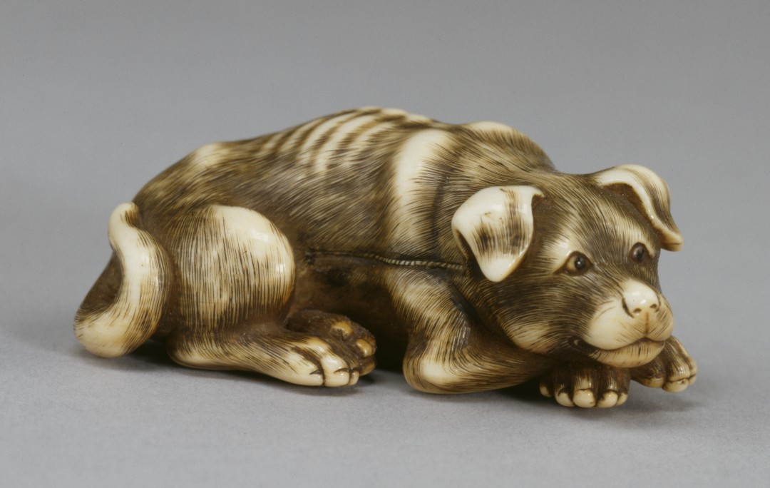 Although Chinese folklore disparaged dogs, in Japan they came to be regarded positively as dispellers of evil and portenders of easy childbirth. They symbolize the eleventh year in the Chinese and Japanese 12-year cycle. In this example, the crouching animal wears a rope leash. Tomotada, a gifted animal carver, was particularly noted for carvings of oxen with rope halters. He attracted many pupils, who were permitted to sign their own work as his.